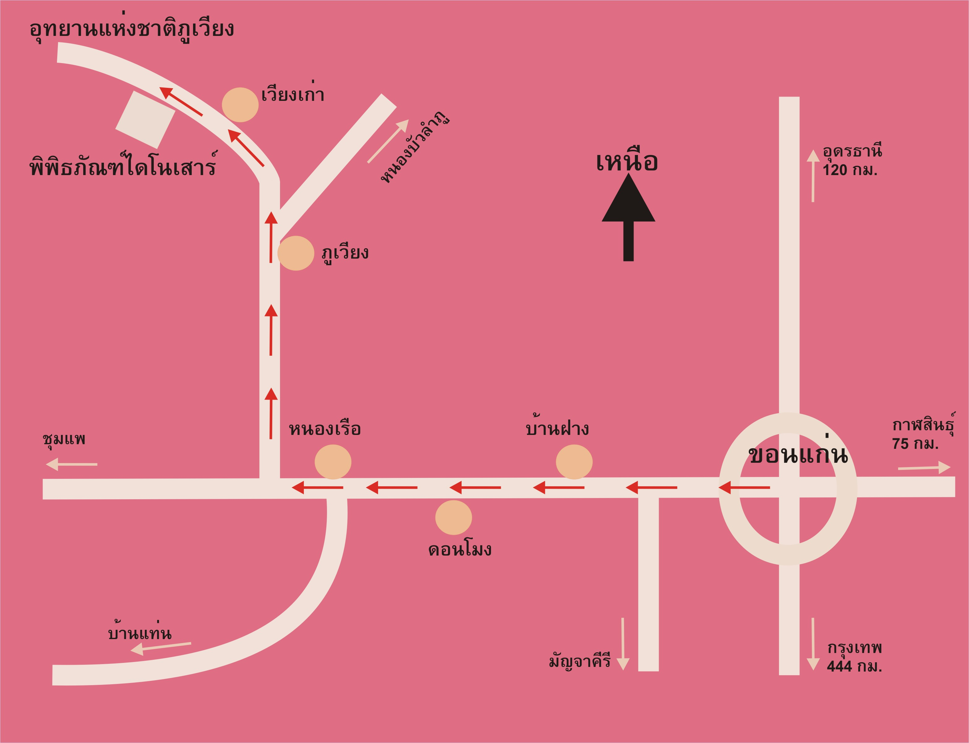 Not-to-scale route map showing location of Phu Wiang Dinosaur Museum, Wiang Kao district, Khon Kaen, Thailand